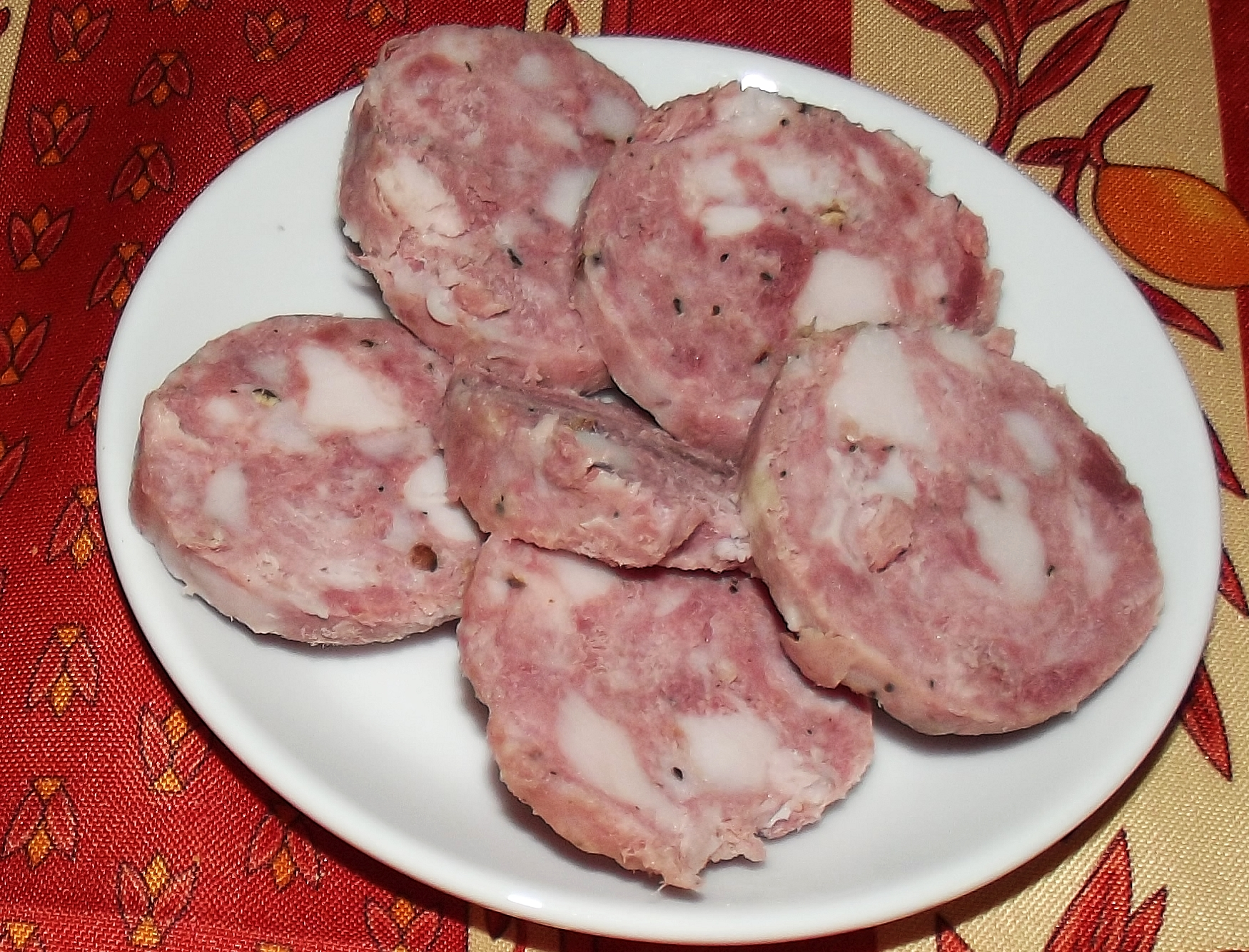 Sliced salame cotto (Piedmont, Italy)